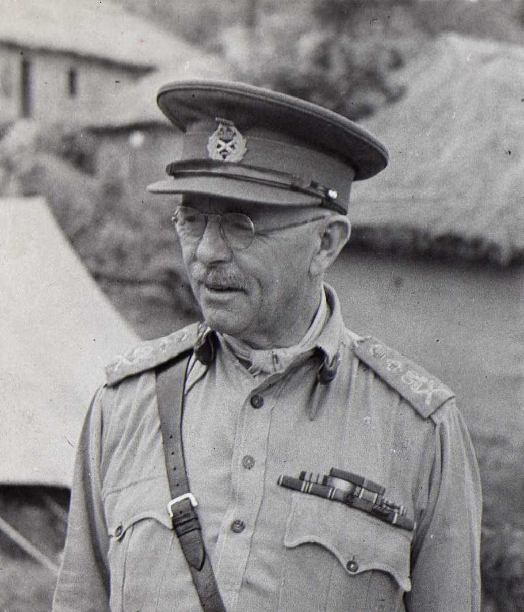 Photograph of General Sir George James Giffard from his time in India.